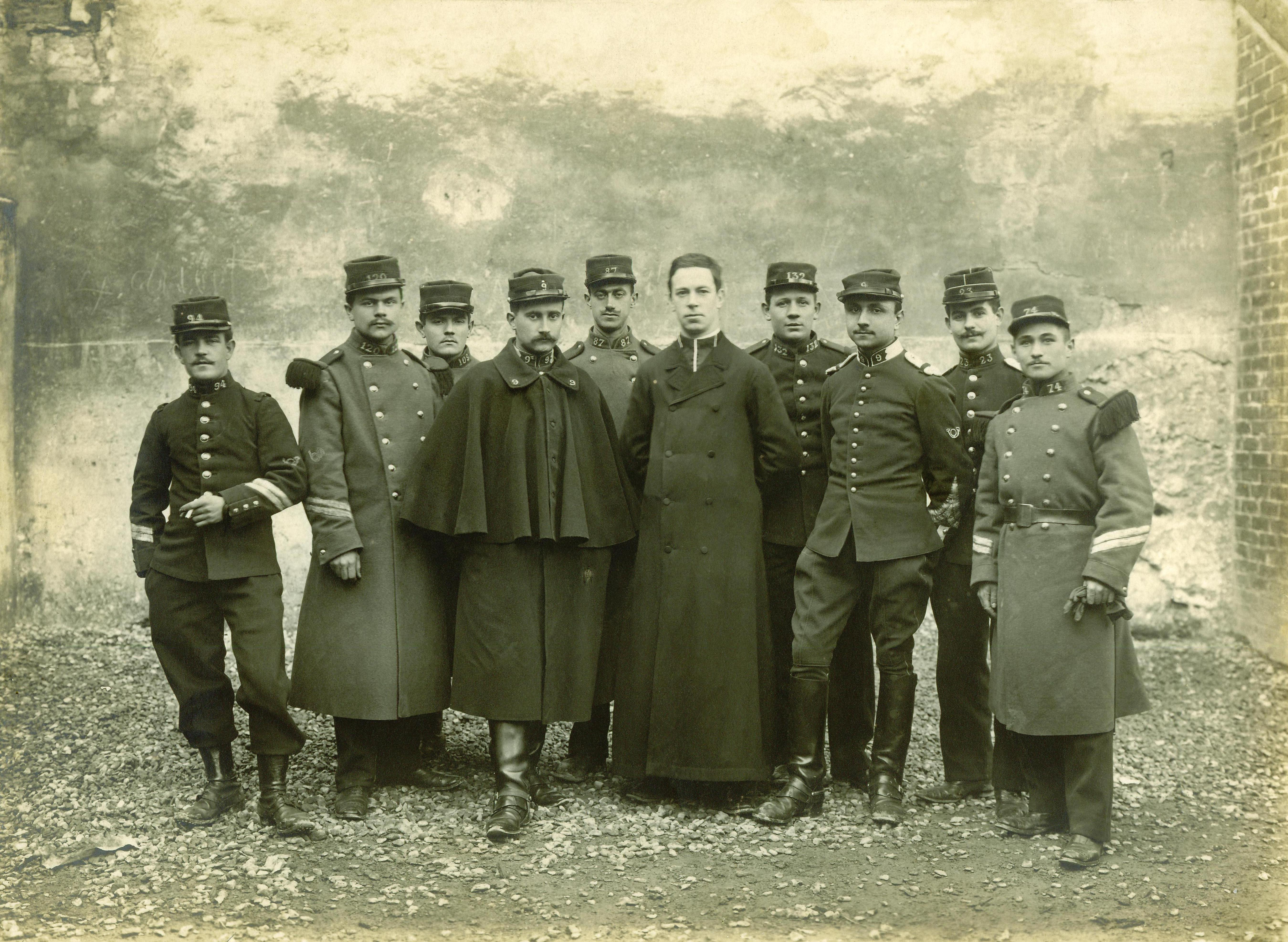 1916: Father Joseph Batut — in the court of parish patronage of the so called Saint-Georges d’Argenteuil, of which this catholic priest is the main director — surrounded by a group of soldiers on leave.